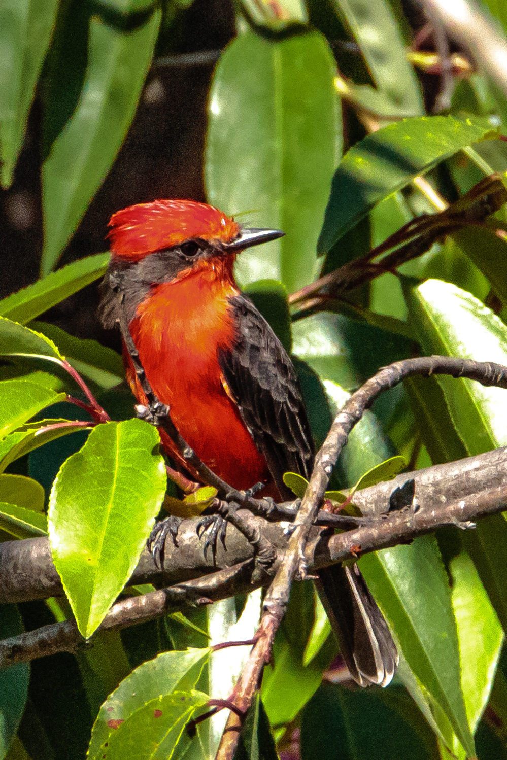 a delightful stay at the Airport Garden Hosteria in Quito, Ecuador...Vermillion Flycatcher (Pyrocephallus rubinus)...